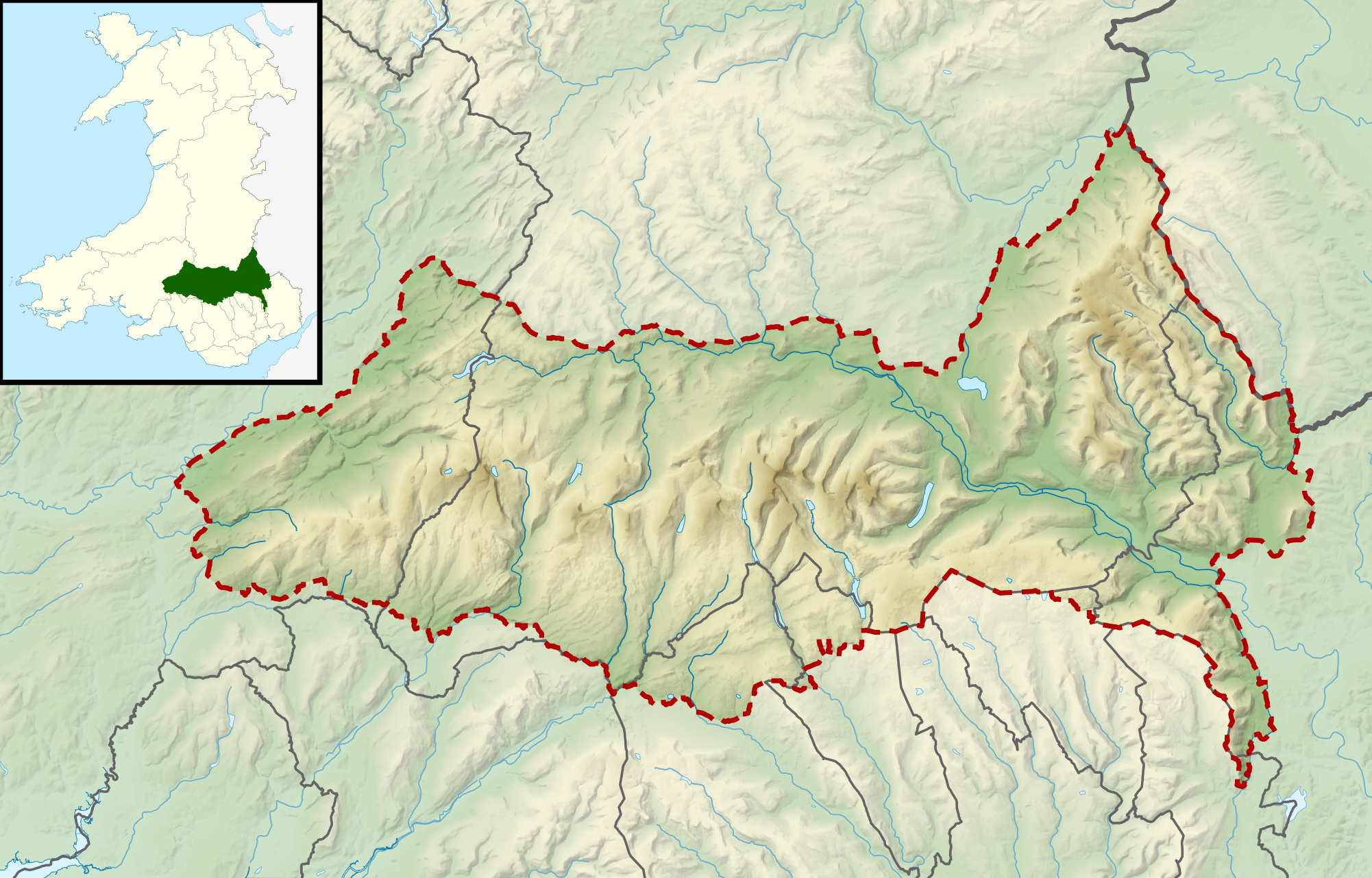 Relief map of the Brecon Beacons National Park, UK Equirectangular map projection on WGS 84 datum, with N/S stretched 170% Geographic limits: West: 4.15W East: 2.90W North: 52.15N South: 51.65N